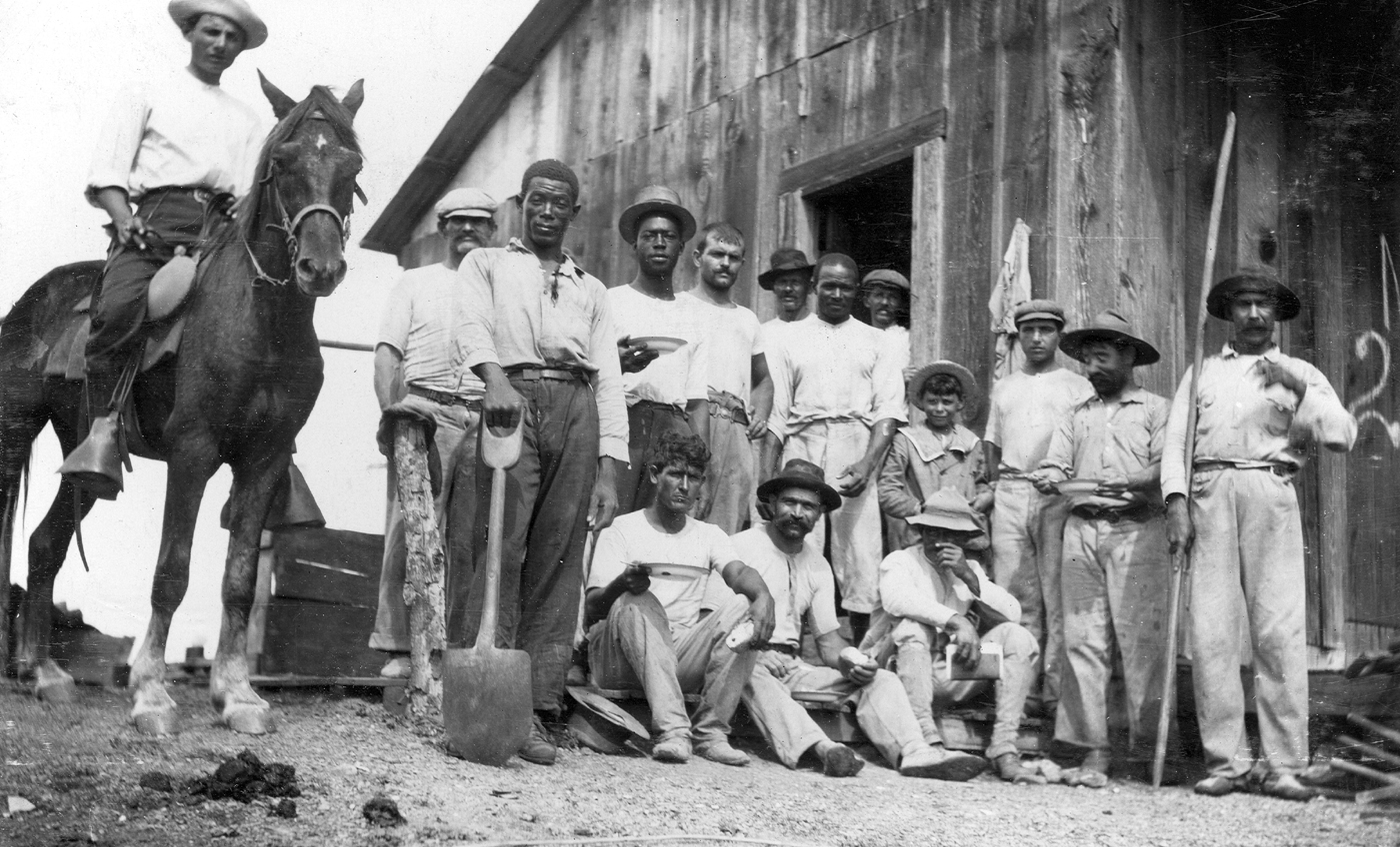 Gang of Cuban Workman employee to dig and test wells on the U.S. Reservation, Guantanamo Bay. Orienta Provence, Cuba. ca 1920.